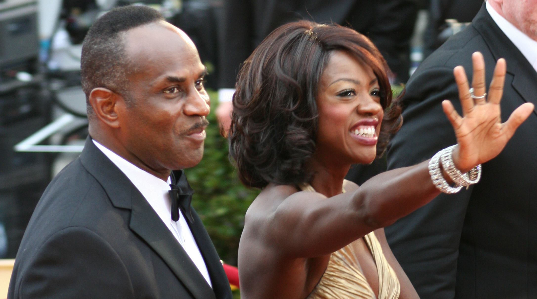 Actors Julius Tennon and Viola Davis at the 81st Academy Awards